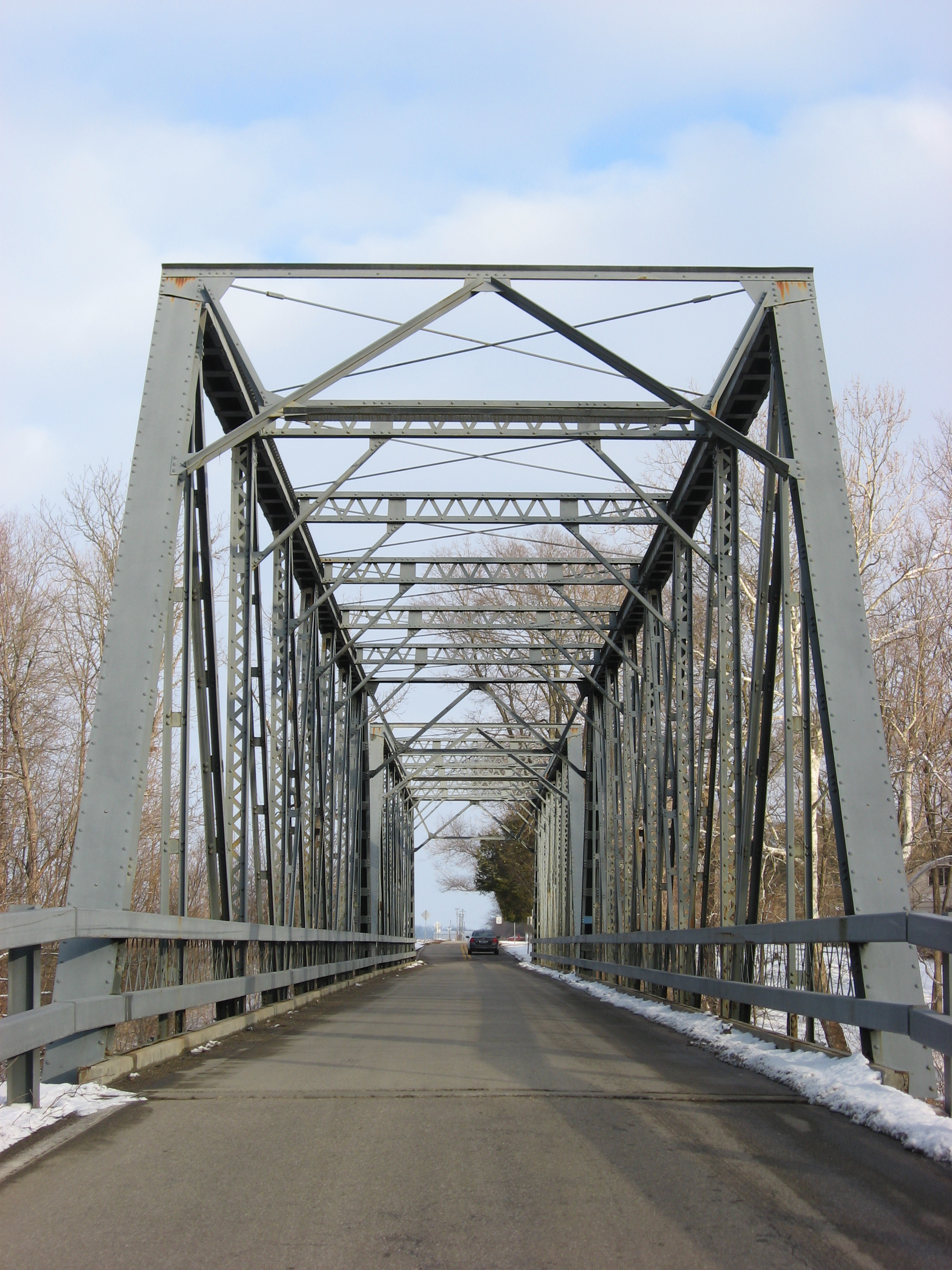 Western portal of the New Hope Bridge, which carries Road 400N over the Flat Rock River north of Columbus in Columbus Township, Bartholomew County, Indiana, United States. Built in 1913, it is listed on the National Register of Historic Places.